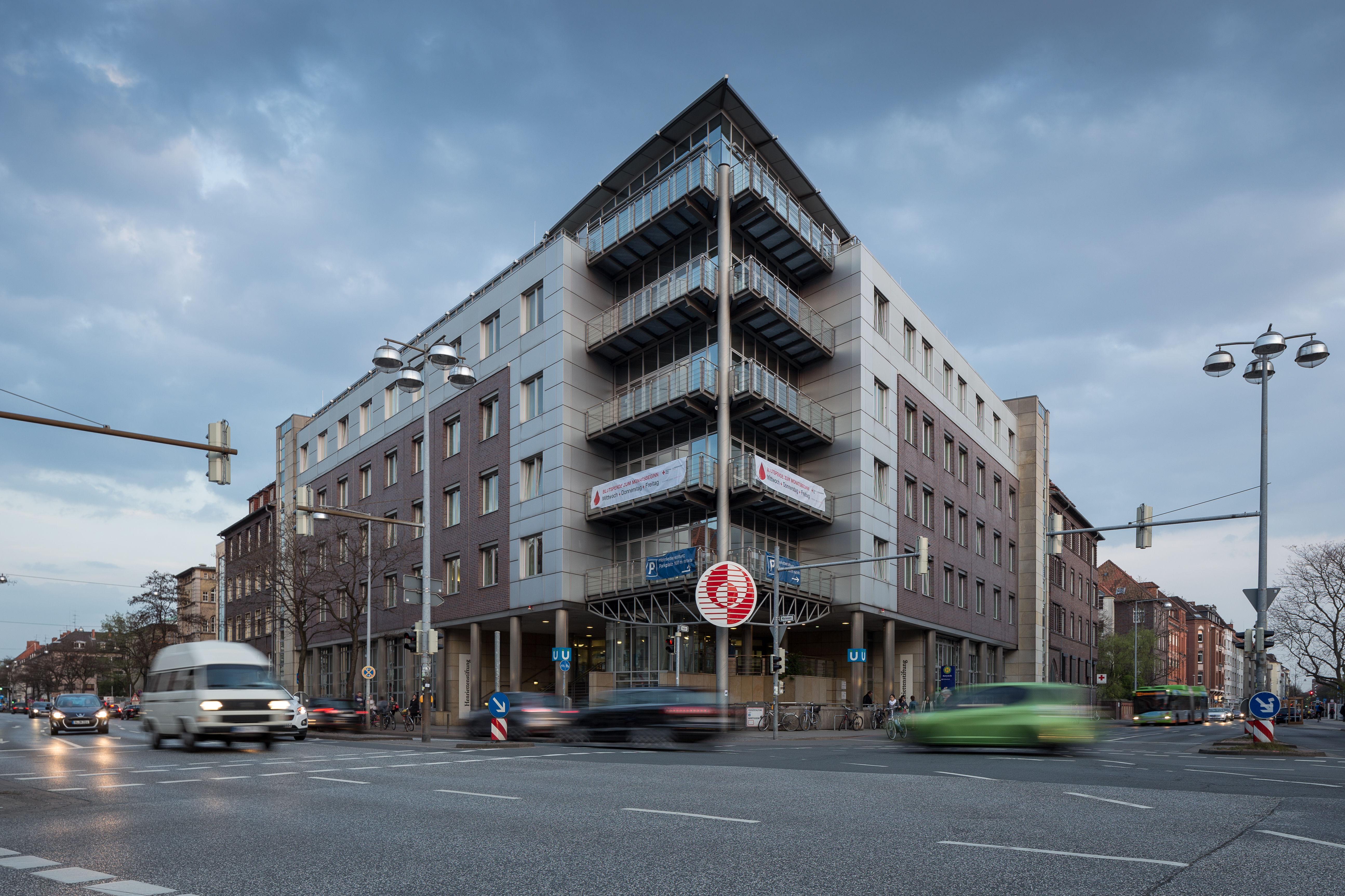 Henriettenstiftung hospital located at Marienstraße and Sallstraße in Hanover, Germany